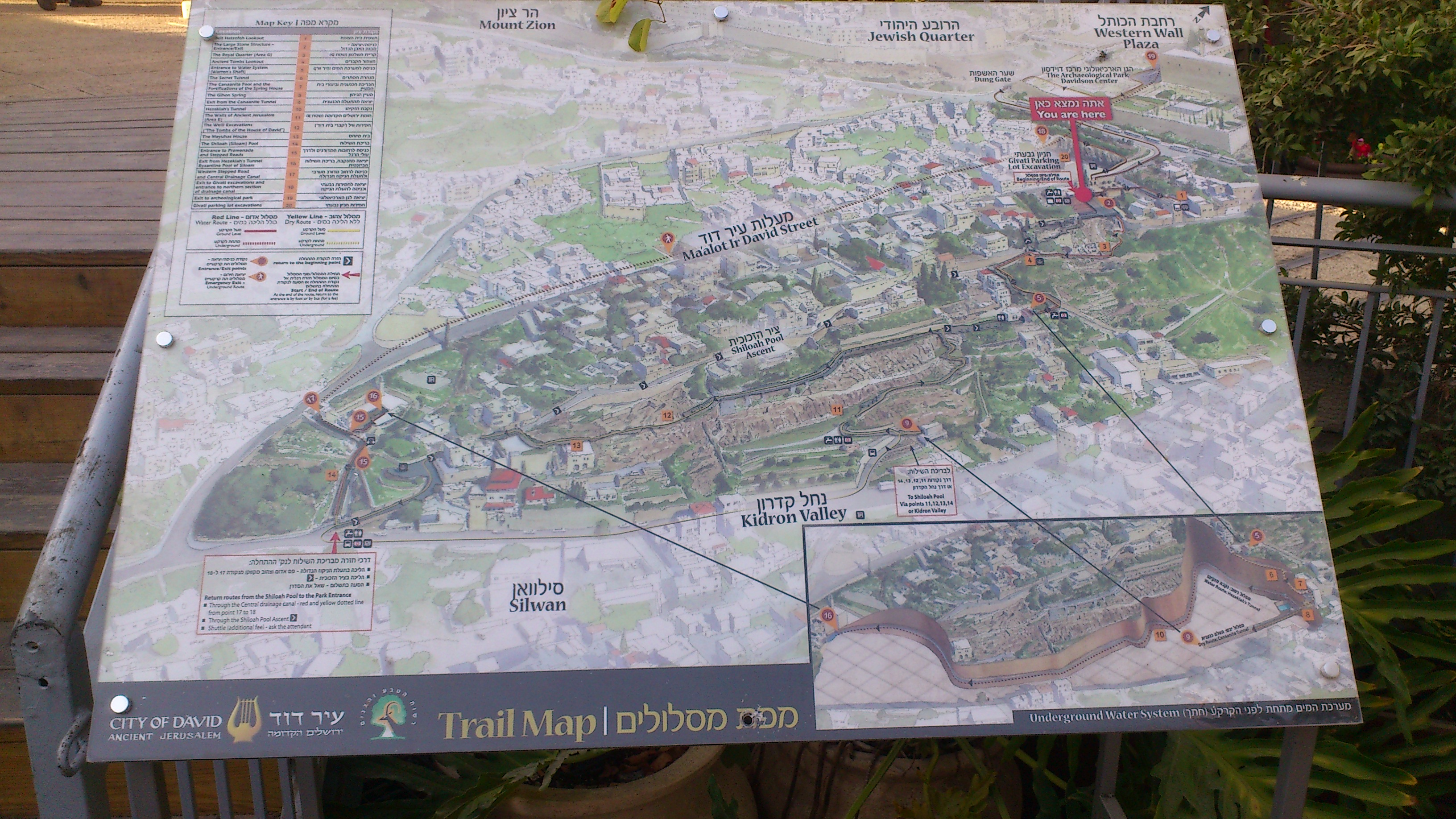 Category:City of David